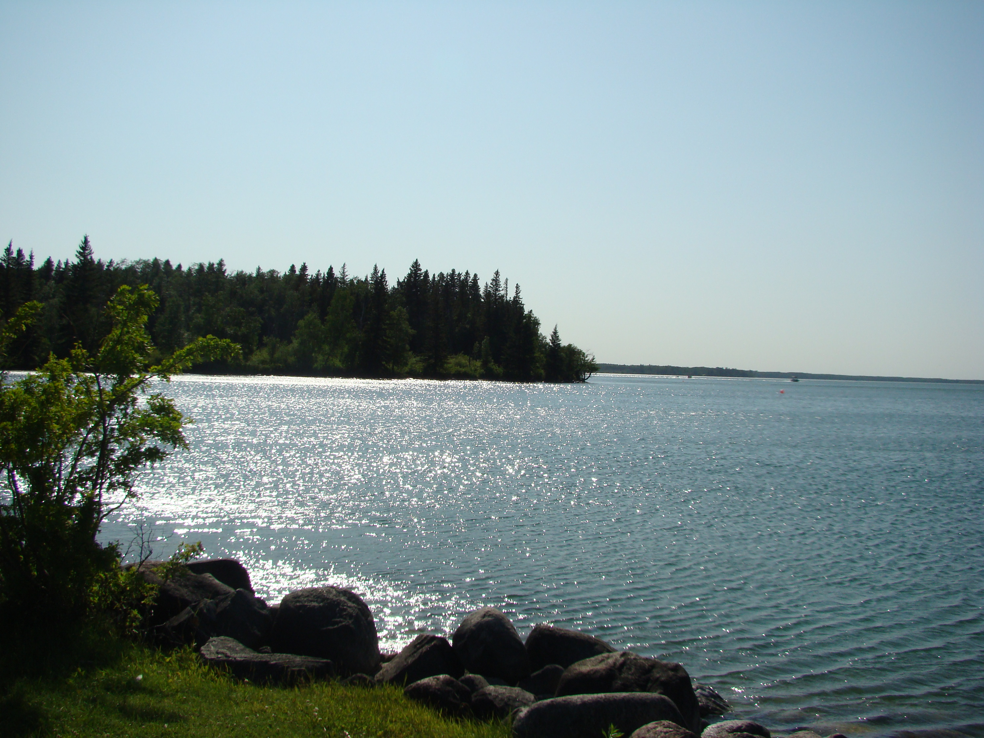 Clear Lake Riding Mountain National Park Manitoba Canada